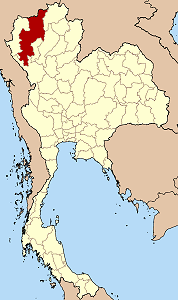 Map of Thailand highlighting Chiang Mai province